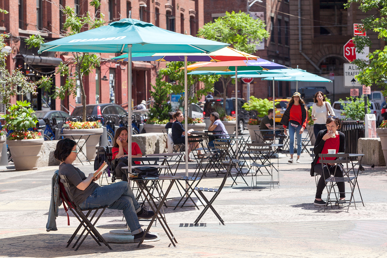 Pearl Street Triangle in DUMBO (Photo gallery of DUMBO, Brooklyn)